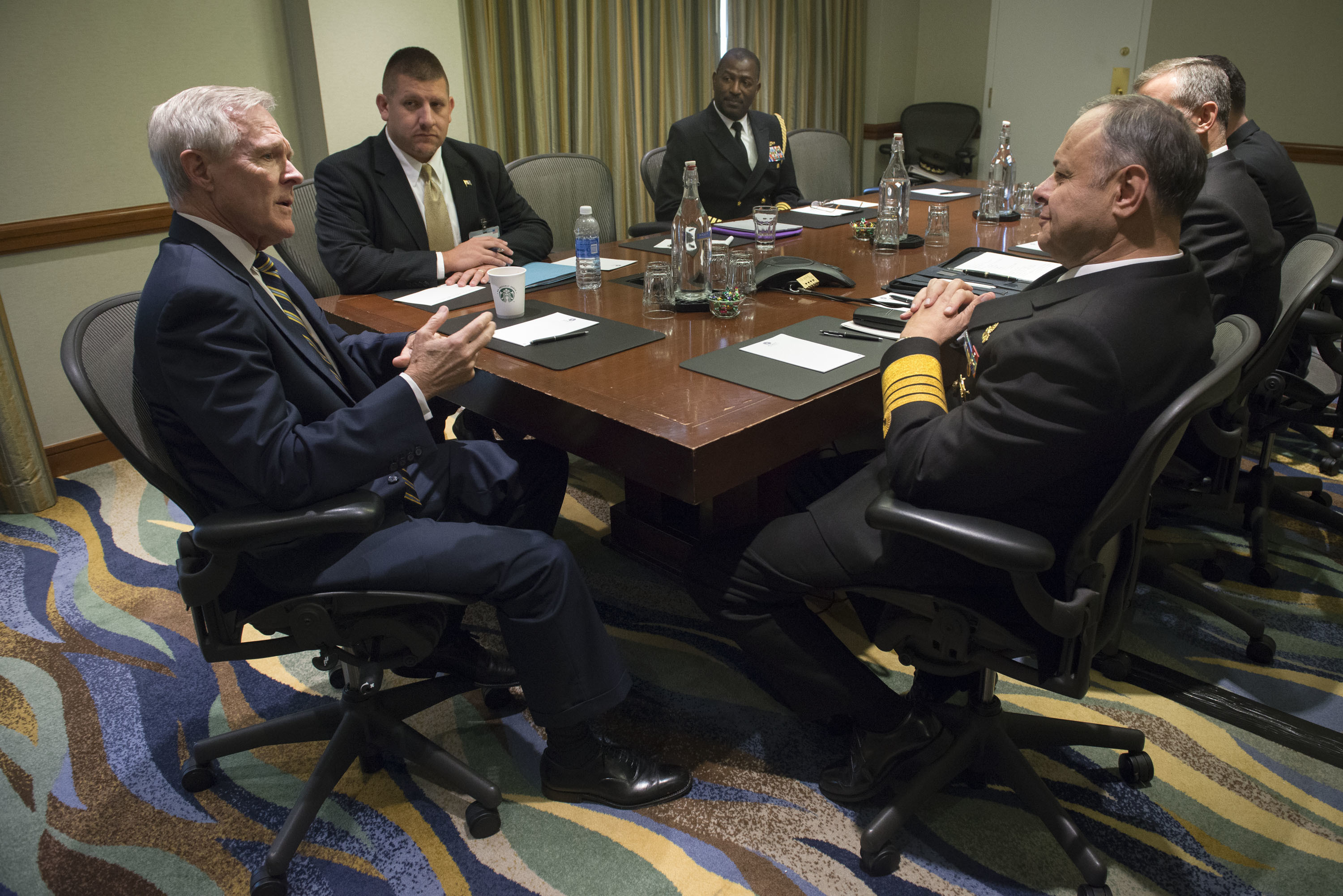 Secretary of the Navy Ray Mabus meets with the commander of the Turkish naval forces Adm. Bülent Bostanoglu on the eve of the International Seapower Symposium. Mabus thanked Bostanoglu for the Turkish navy's close partnership with the U.S. Navy and strong cooperation in the Mediterranean and Black Seas